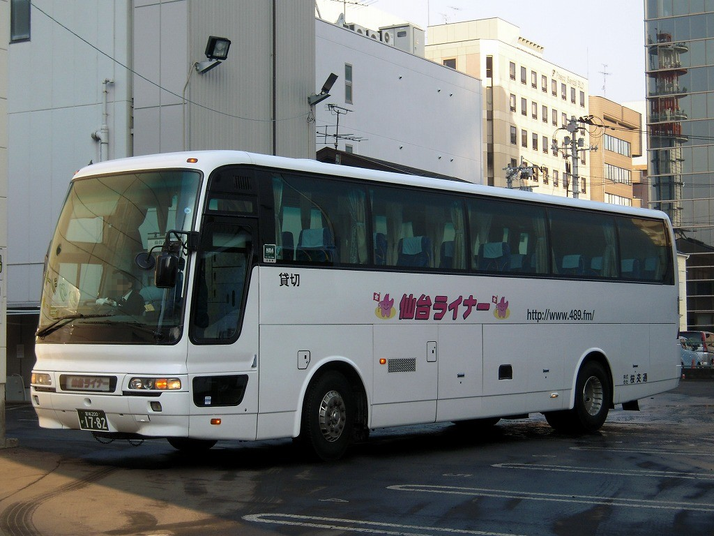 Sakura Kotsu Mitsubishi Fuso Aero Queen I for "Sendai-liner"